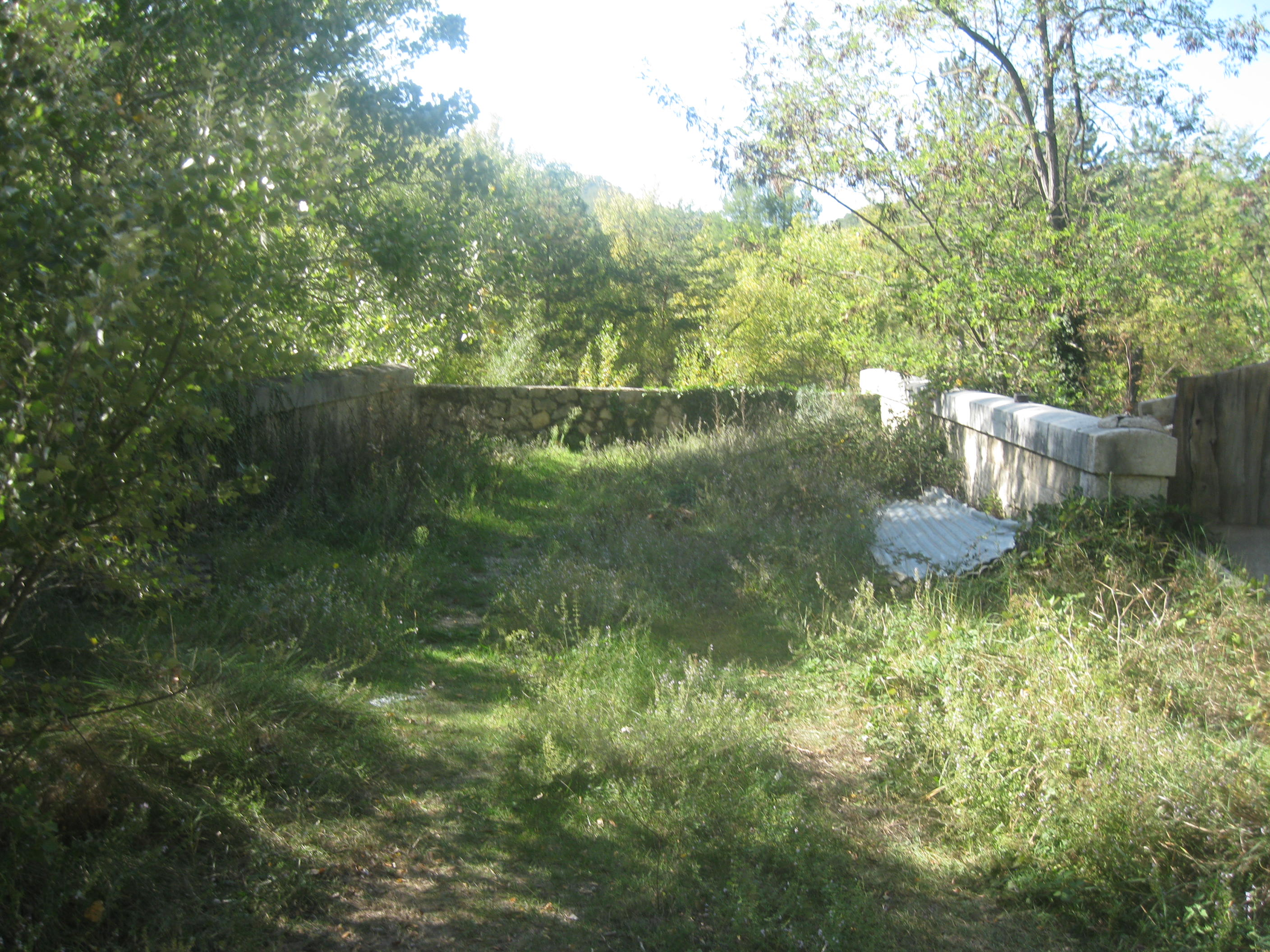 remains of the viaduct Eiffel near to Buis-les-Baronnies